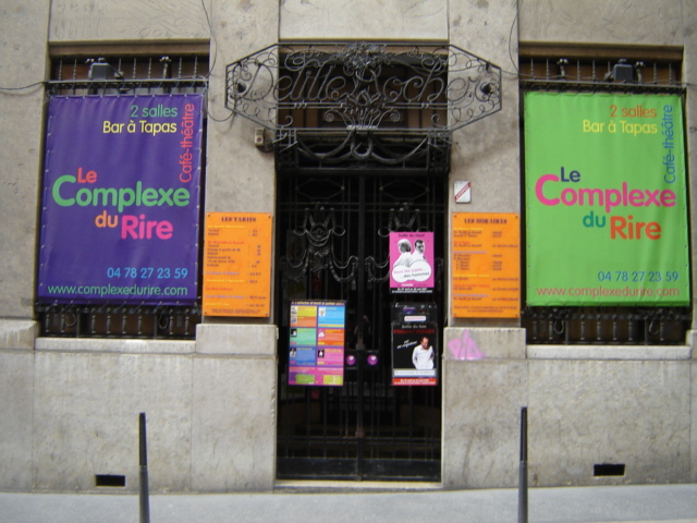 Le Complexe du Rire (theatre), 7 rue des Capucins, in the 1st arrondissement of Lyon